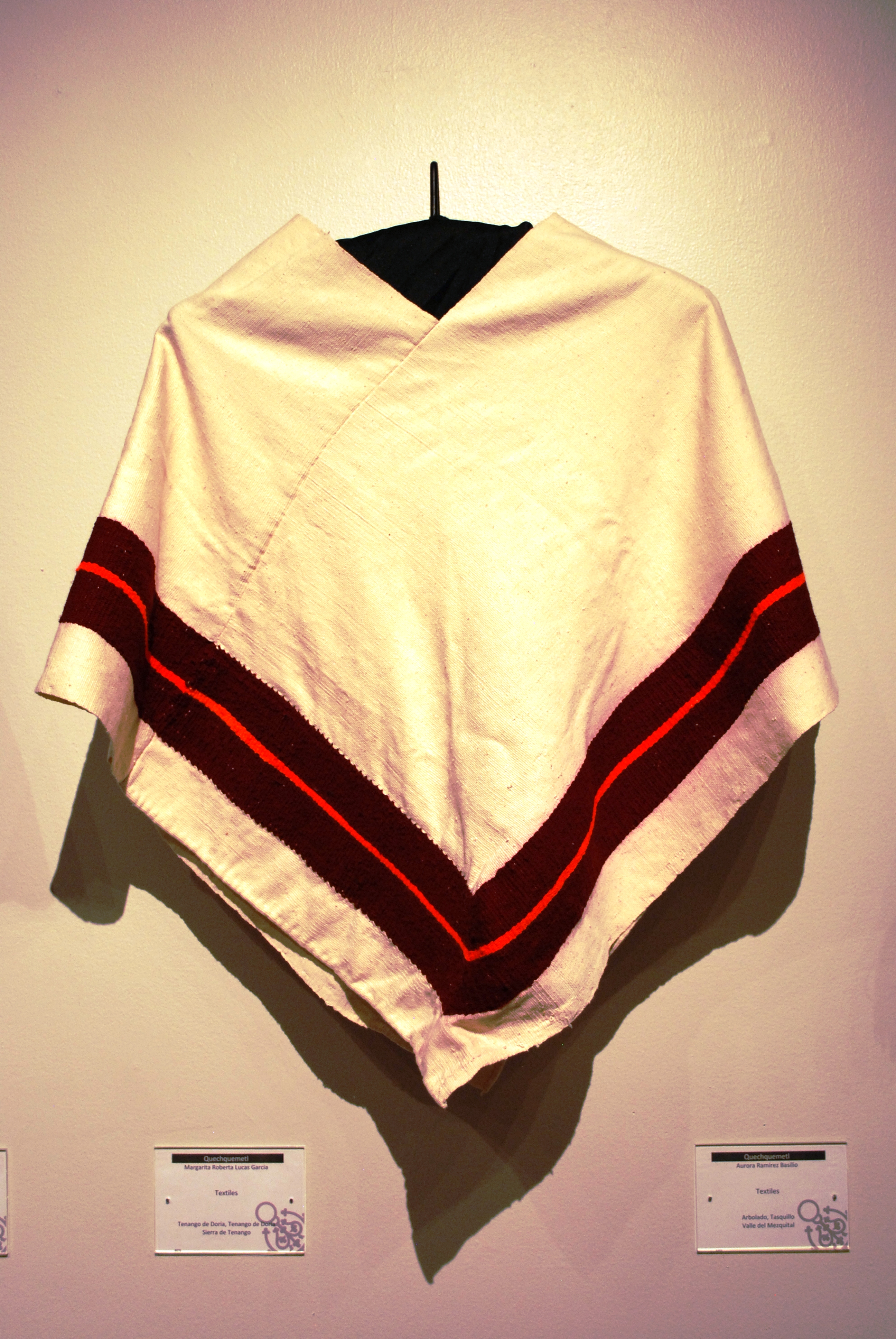 Large shawl called a quechquemitl by Margarita Roberta Lucas Garcia from Tenango de Doria, Hidalgo as part of a temporary exhibit of crafts from Hidalgo at the Museo de Arte Popular, Mexico City